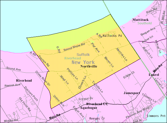 U.S. Census 2000 reference map for Northville